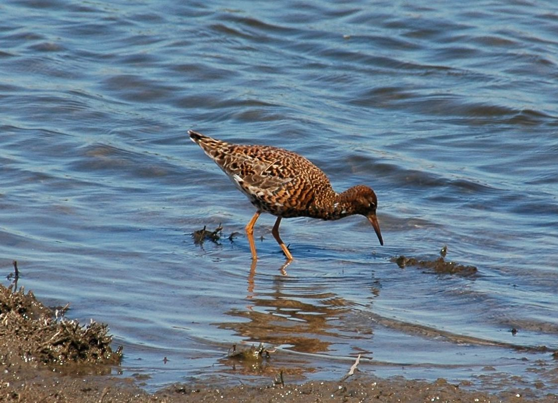 Ruff (Philomachus pugnax), male in transition plumage, photographed Elbmarschen near Hamburg